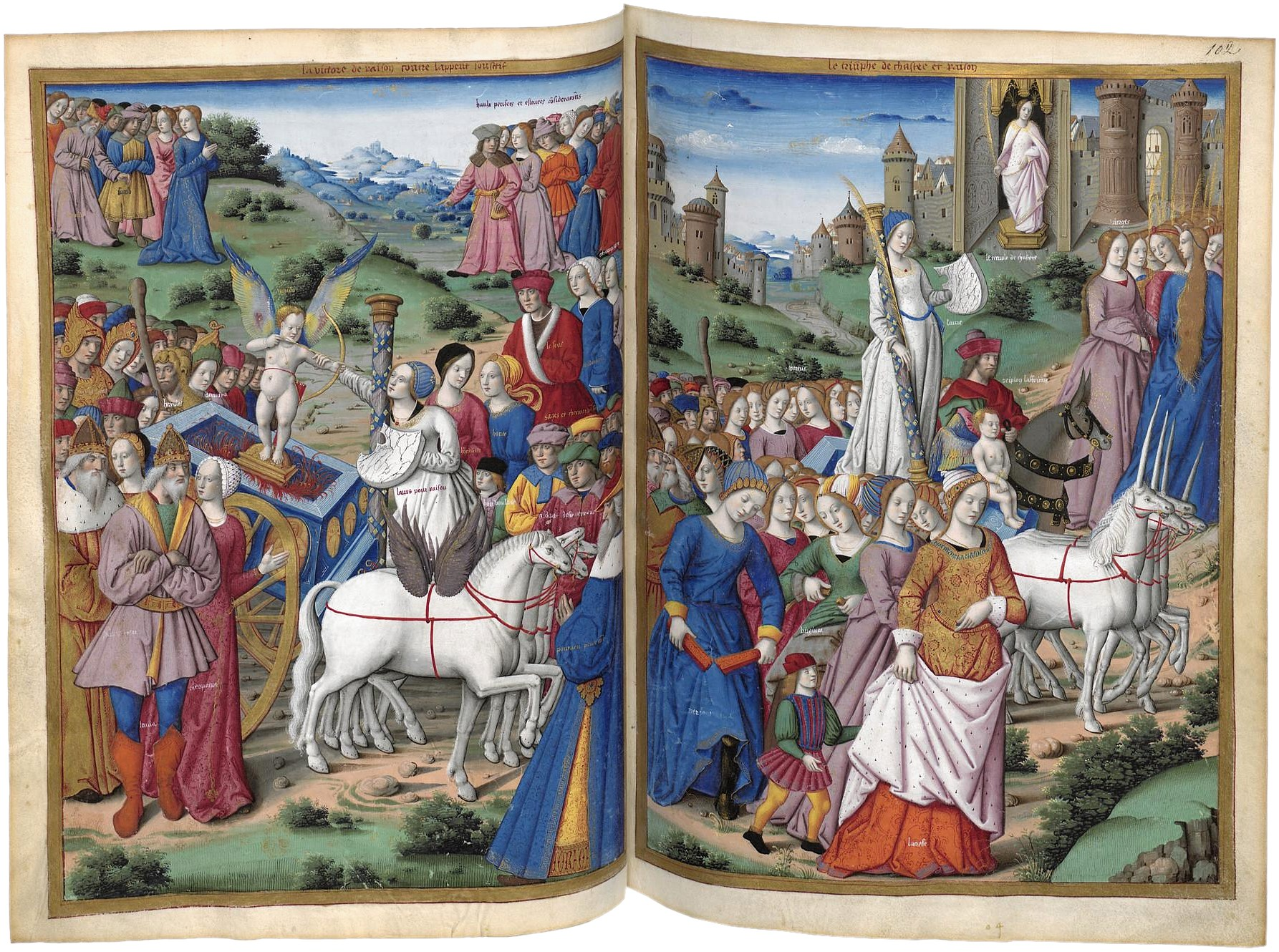 Two-page illustration of Petrarch's Triumph of Chastity.